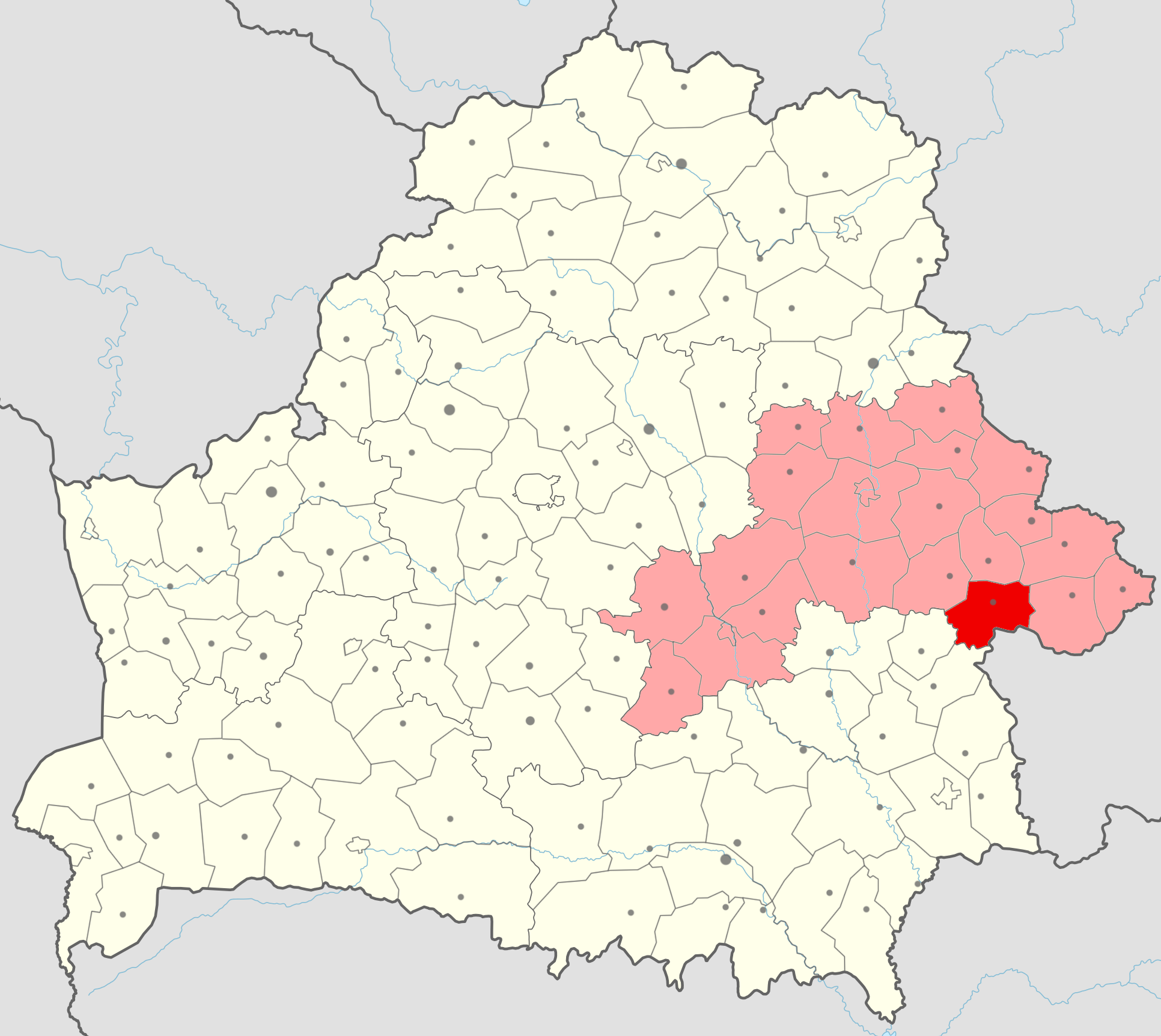 Location of Krasnapoĺski rajon (red) in Mahilioŭskaja voblasć (light red) in Belarus.